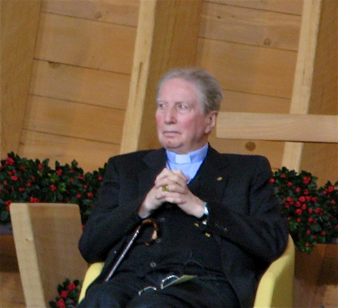 Former archbishop of Milan and cardinal Carlo Maria Martini at don Luigi Verzé's 90th birthday event, Vita-Salute San Raffaele University, Milan